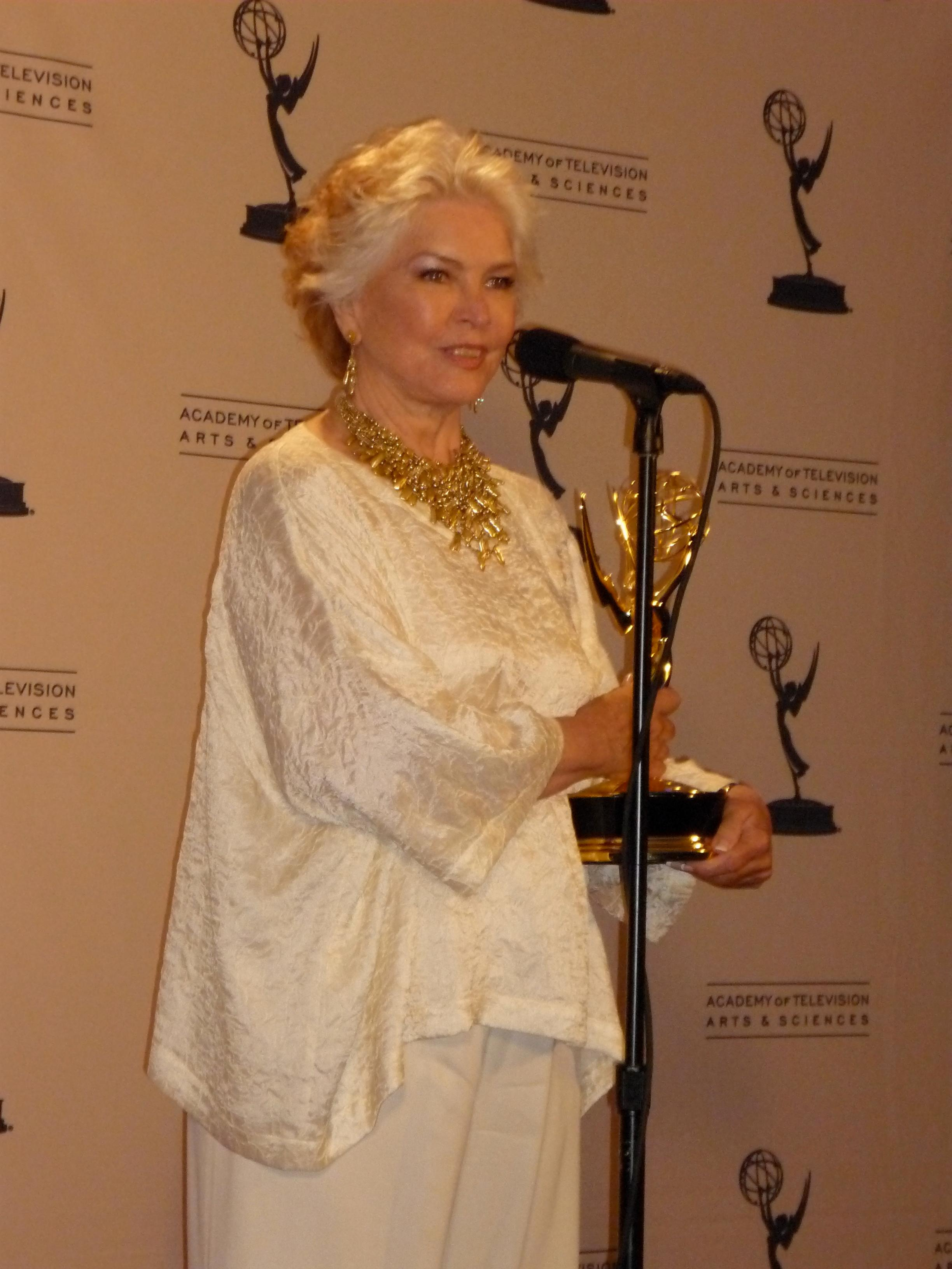 Actress Ellen Burstyn at the 2009 Creative Arts Emmy Awards.